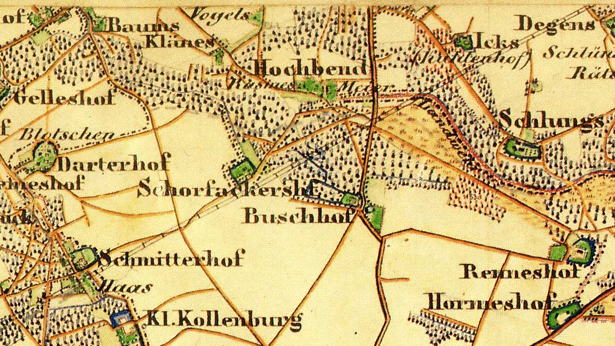 Topographic Map 1:25000 by Royal Prussian Land Survey, sheet 4704 (Viersen), snippet displaying the area of Hochbend.